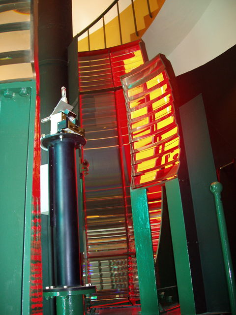 Orford Ness Lighthouse Lower down the tower there are navigational lights, one white and one filtered red. This shows the lamp and the various glass prisms which bend and concentrate the light on the red side.